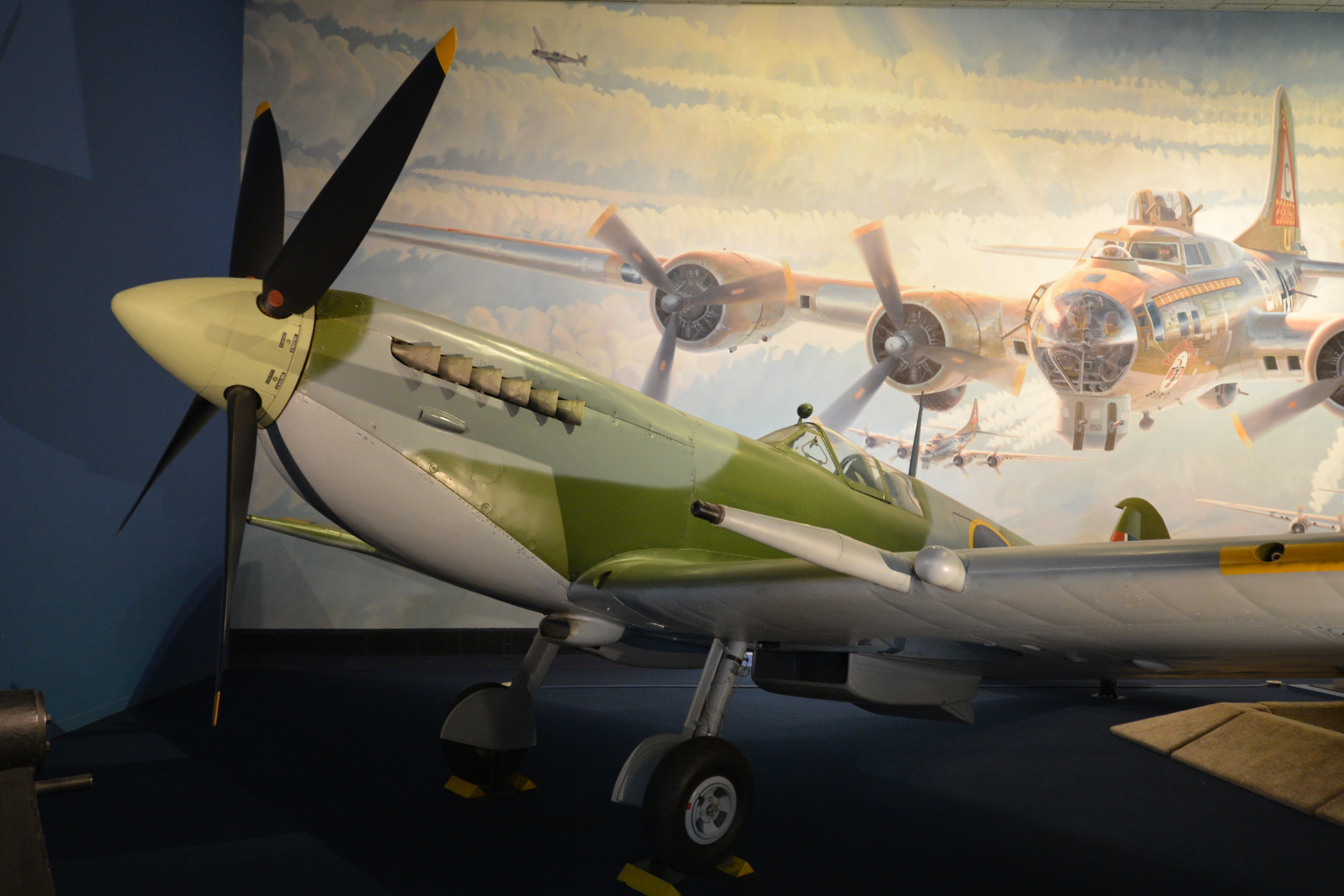 02694-National-Air-and-Space-Museum